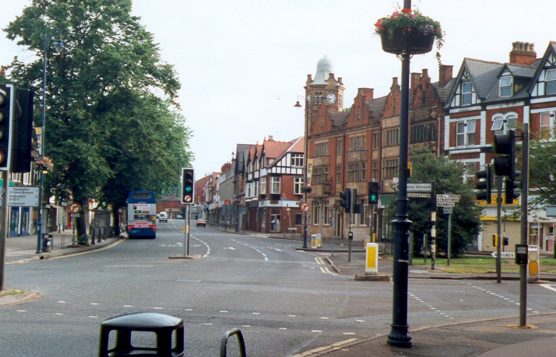 I took this photo